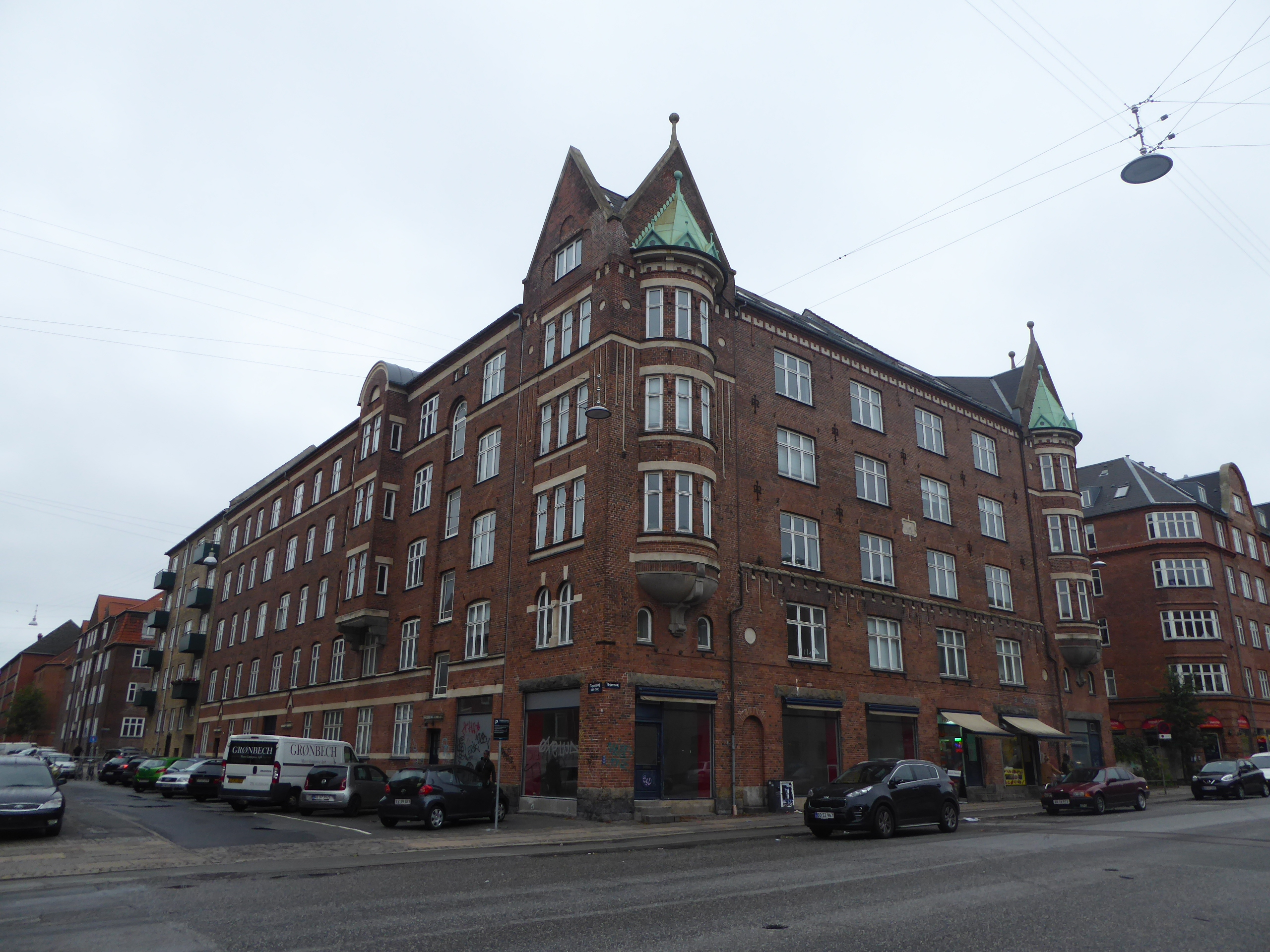 The housing cooperative A/B Heimdalshus at the corner of Brynhildegade and Tagensvej in Nørrebro in Copenhagen.